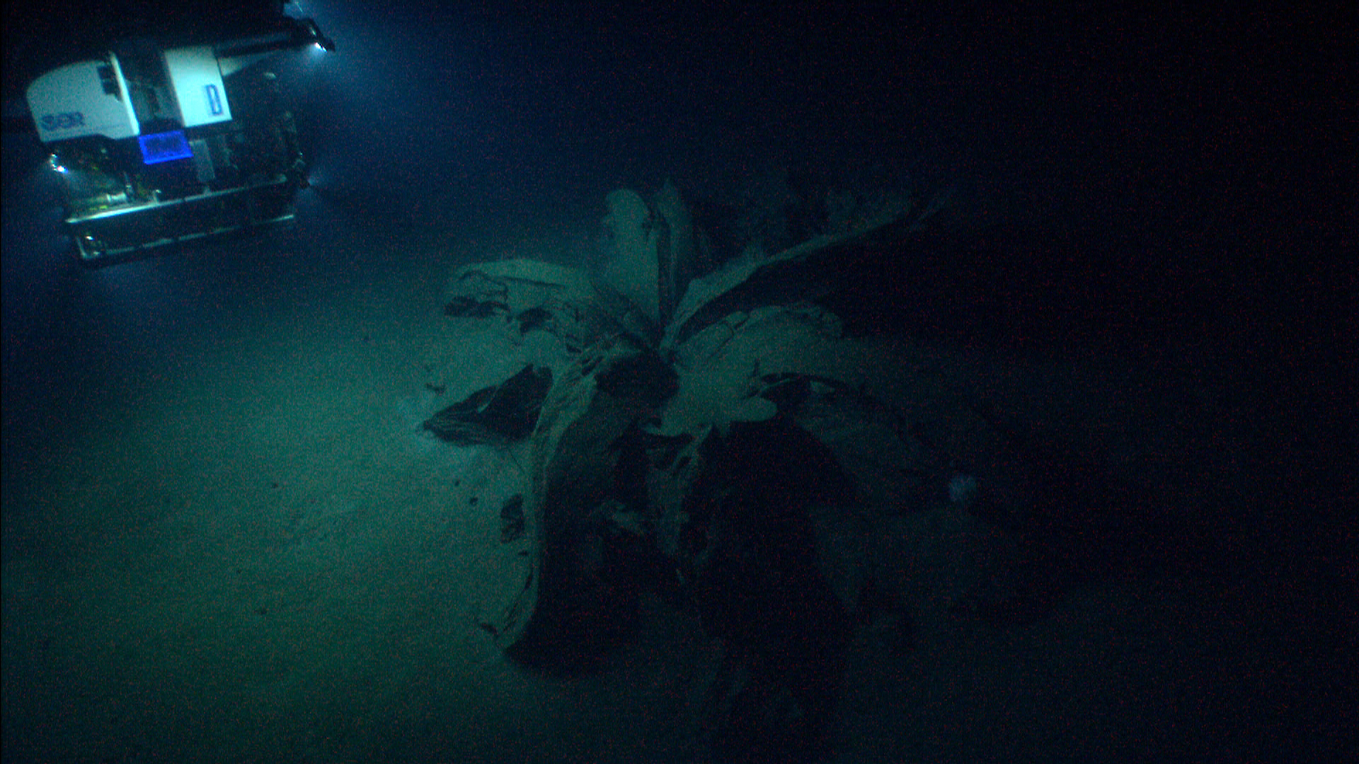 During NOAA Ship Okeanos Explorer's Gulf of Mexico 2014 expedition, scientists went in search of a possible shipwreck and instead found the remnants of two asphalt volcanoes, dubbed the "tar lilies." Known to exist in other areas of the world, this marks the first discovery of these geologic features in the Gulf of Mexico. Learn more here